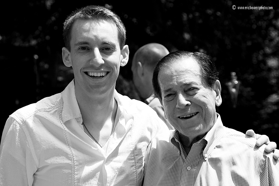 At a fundraiser for Jason Kander, the Missouri 44th District House Representative. Jason with former Kansas City Missouri Mayor Richard Berkley, who served from 1979 to 1991.